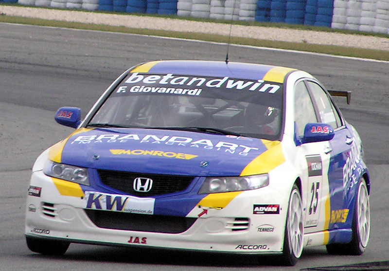 World Touring Car Championship 2006: Fabrizio Giovanardi (JAS Motorsport) - Honda Accord Euro R